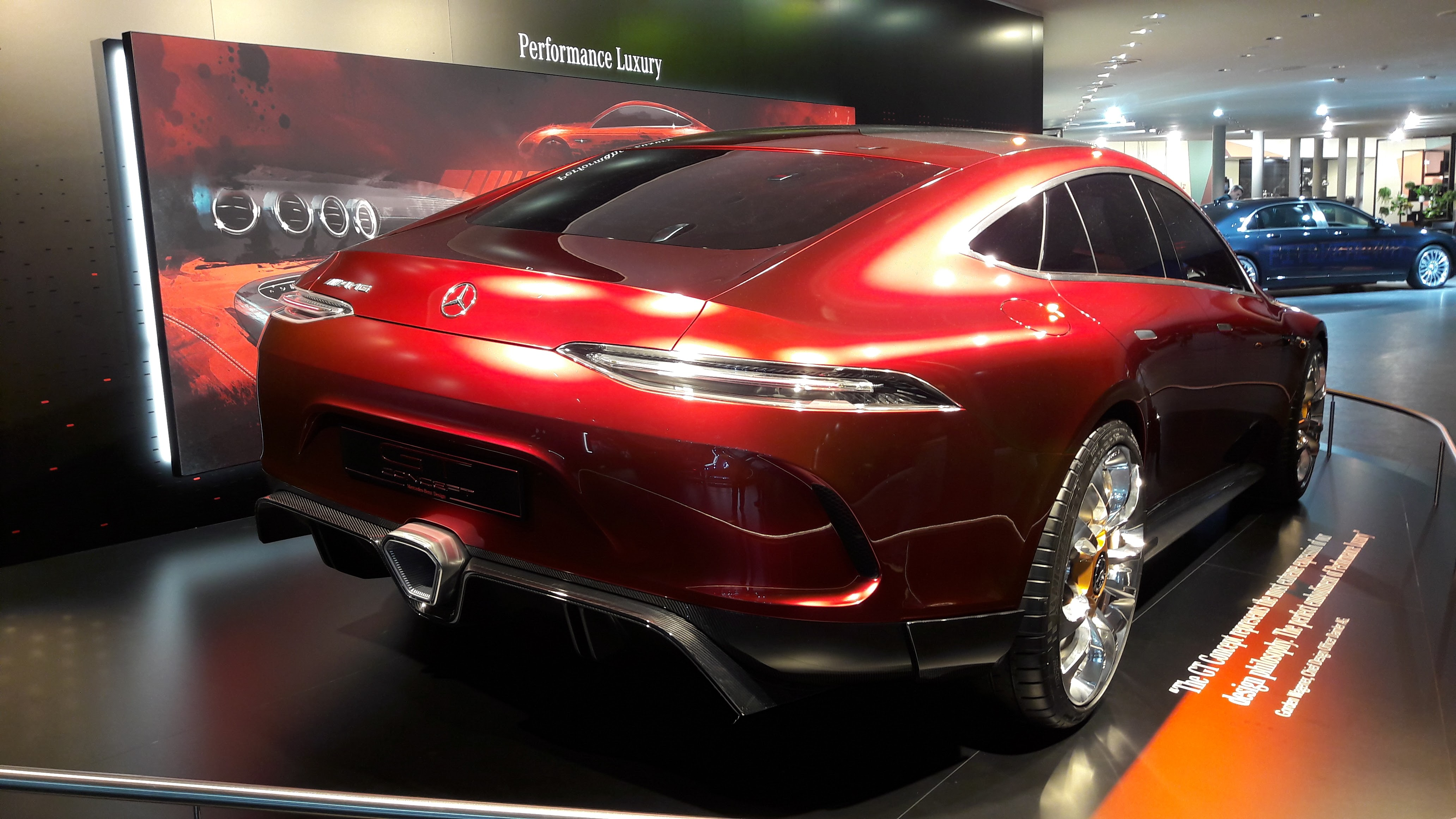 Mercedes-Benz Media Night, IAA 2017